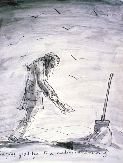 Pen and Ink Wash and Drawings entitled: "Saying good bye to a mediocre drawing.